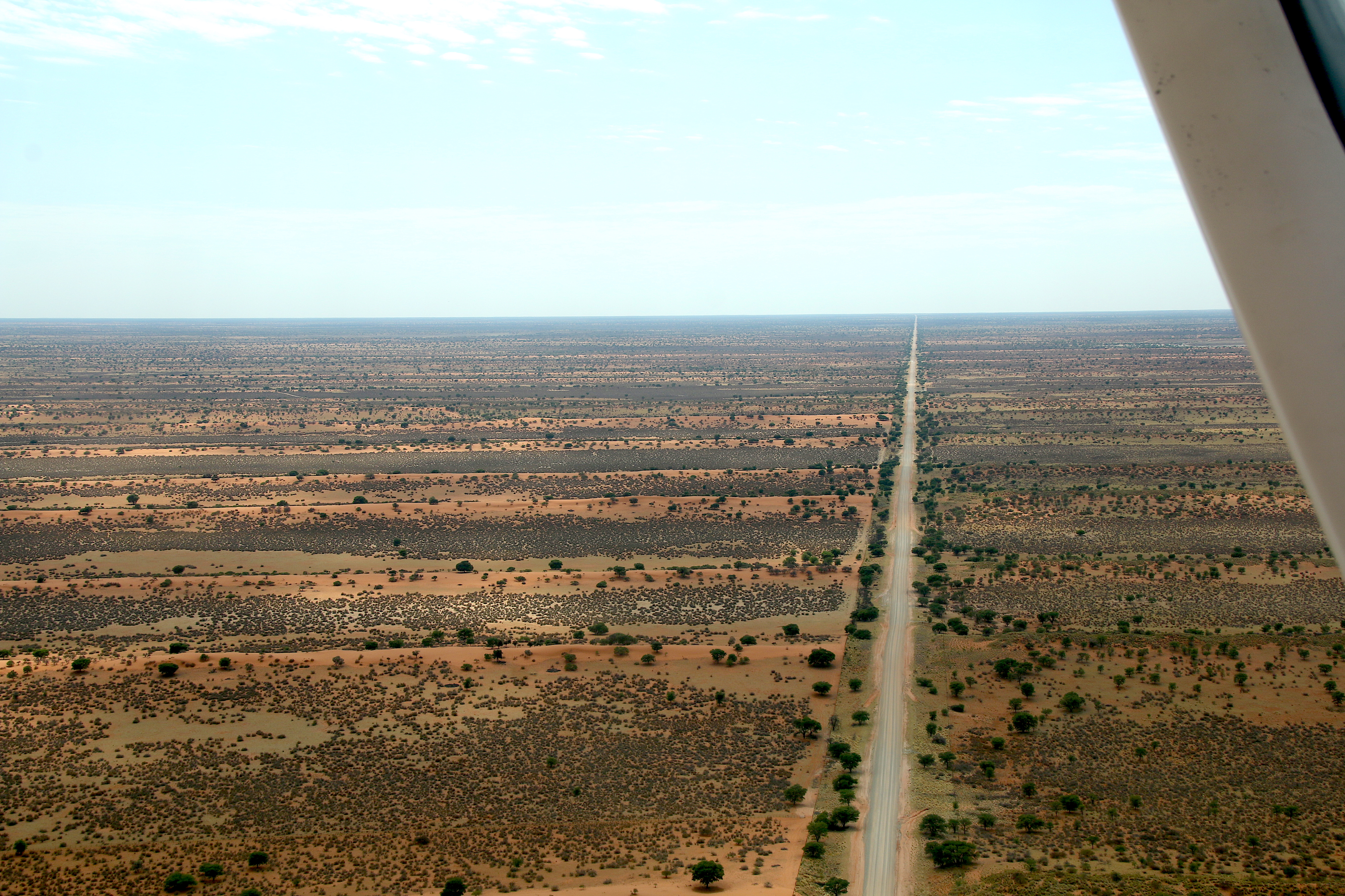 Aerial view of Road C18 in Namibia (2018)